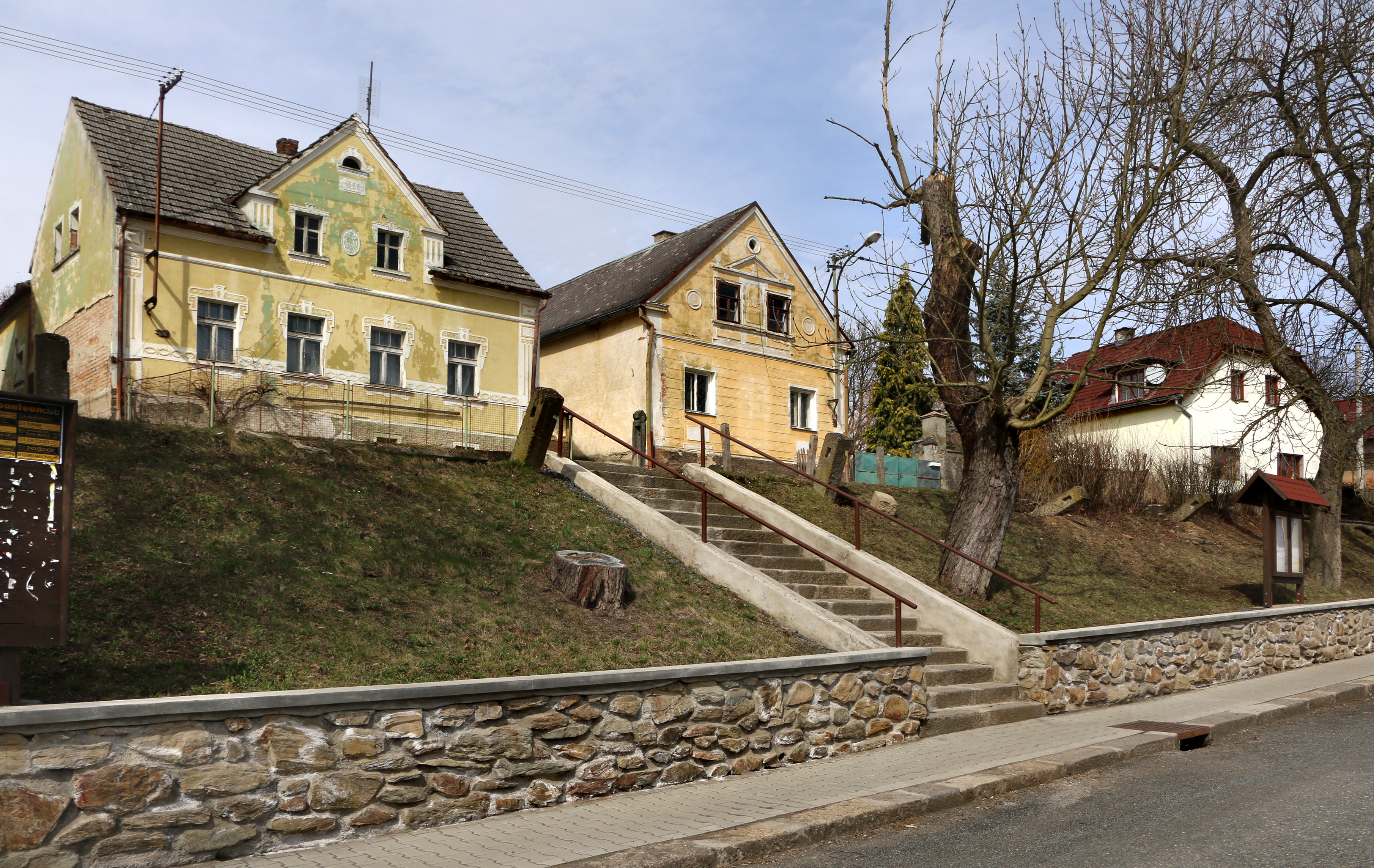 Common in Křelovice, Czech Republic.